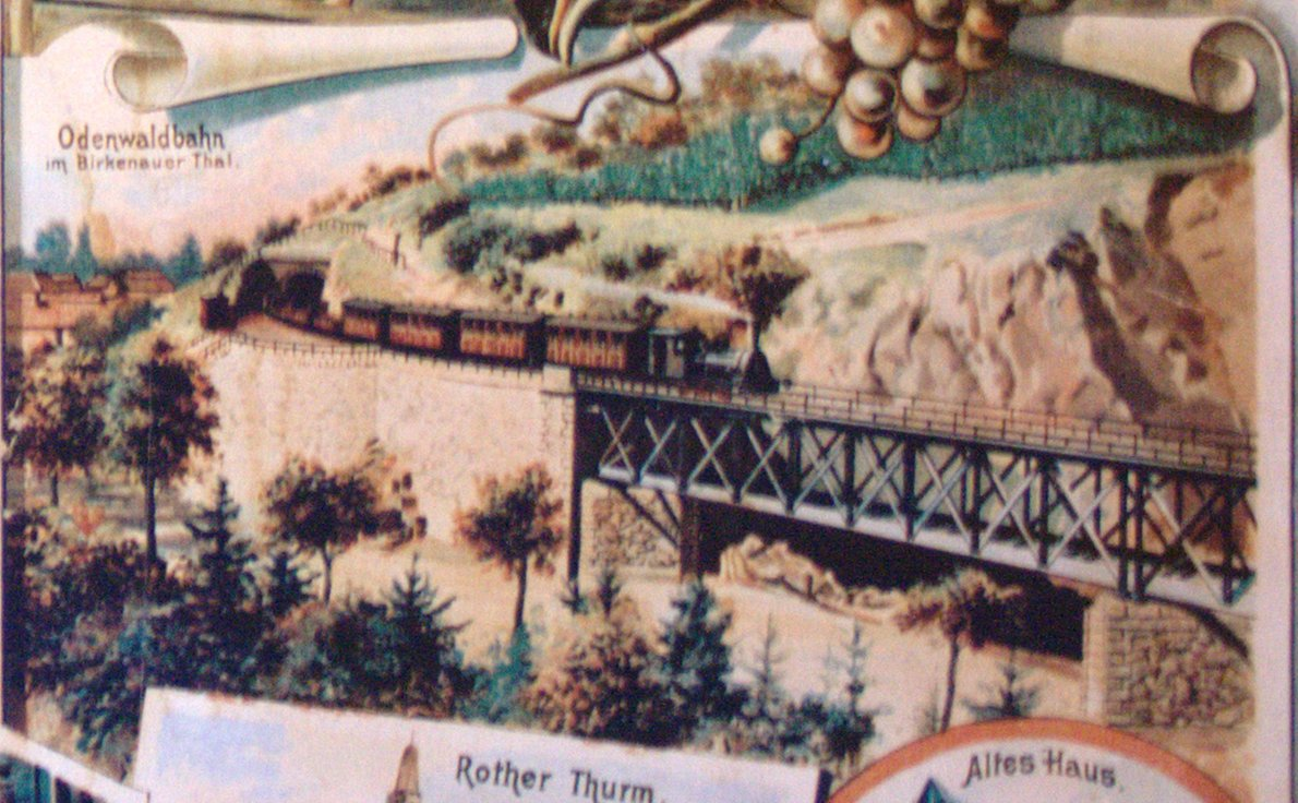 Part of an advertisement poster for the "climatic health resort" Weinheim around 1900 showing the trainstop "Weinheim-Tal" which has been closed down meanwhile at the Weschnitz Valley Railway Line